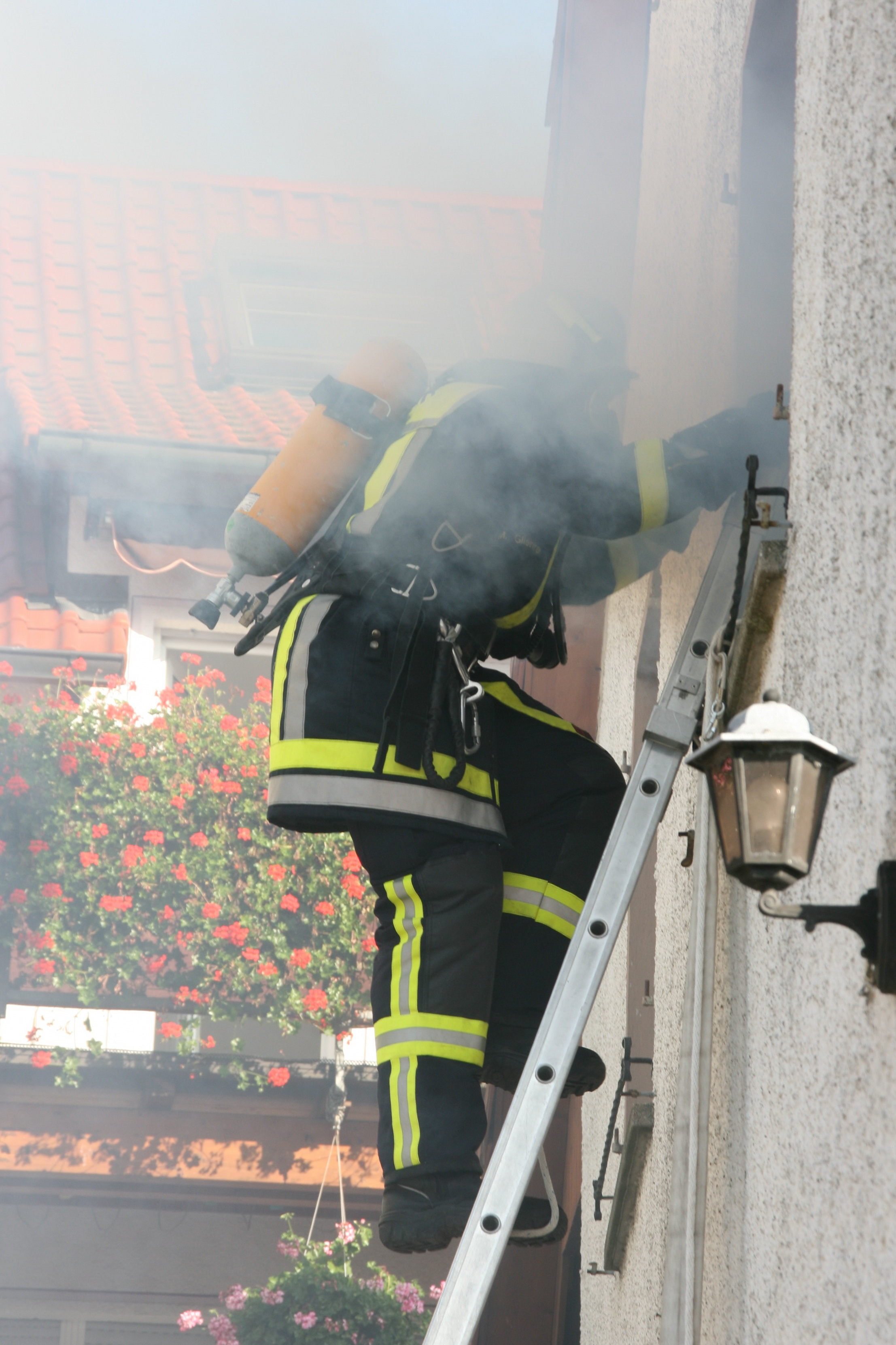 A firefighter entering a window through dense smoke